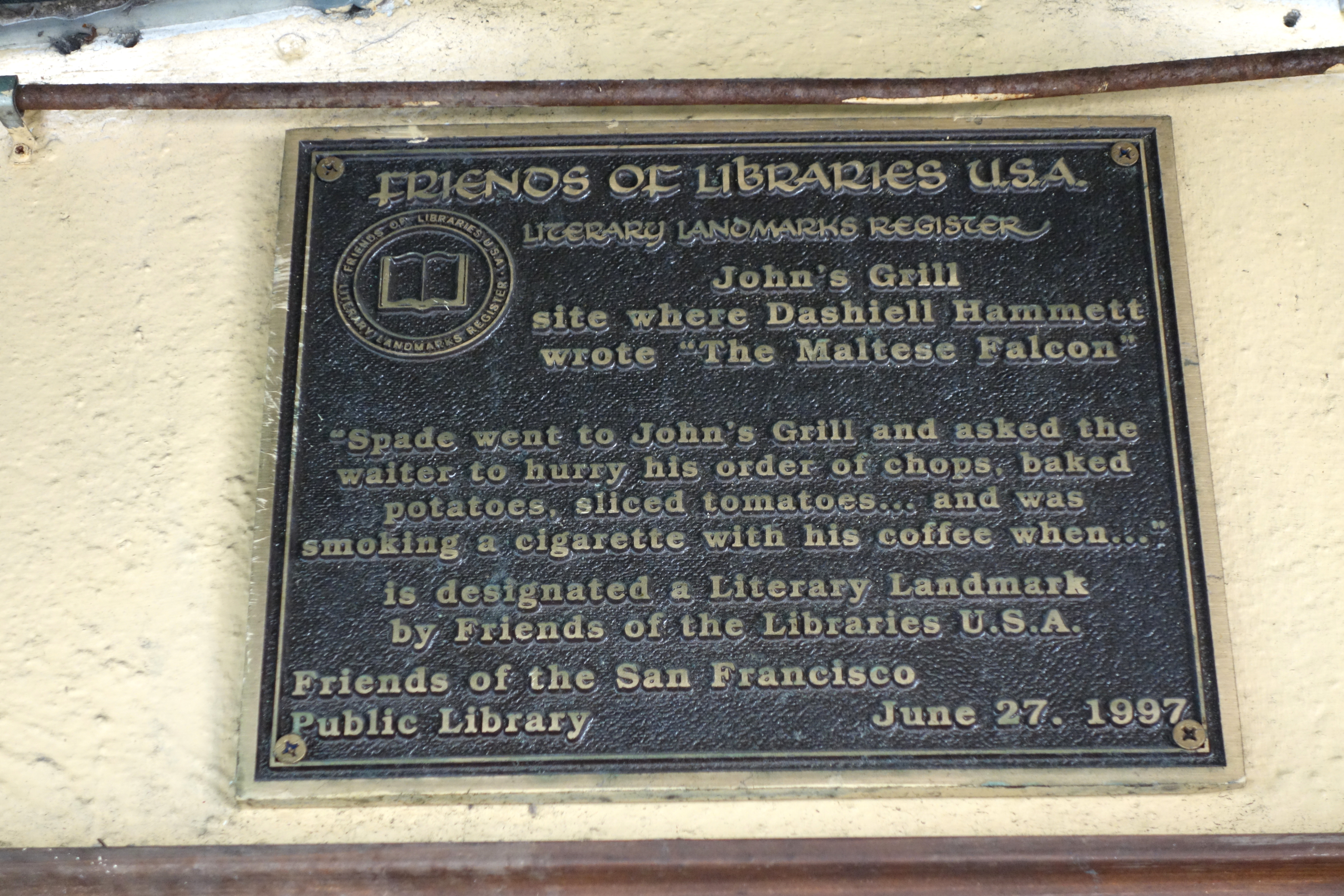 John's Grill plaque - San Francisco, California, USA. This plaque commemorates John's Grill, the site where Dashiell Hammett wrote "The Maltese Falcon".